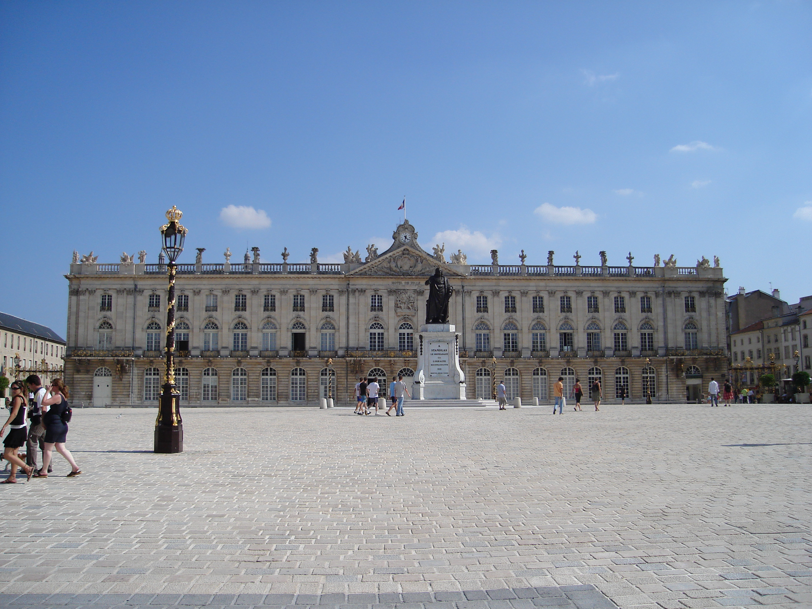 Town hall of Nancy, Place Stanislas, France. In the center a Statue of Stanisław I, Duke of Lorraine.